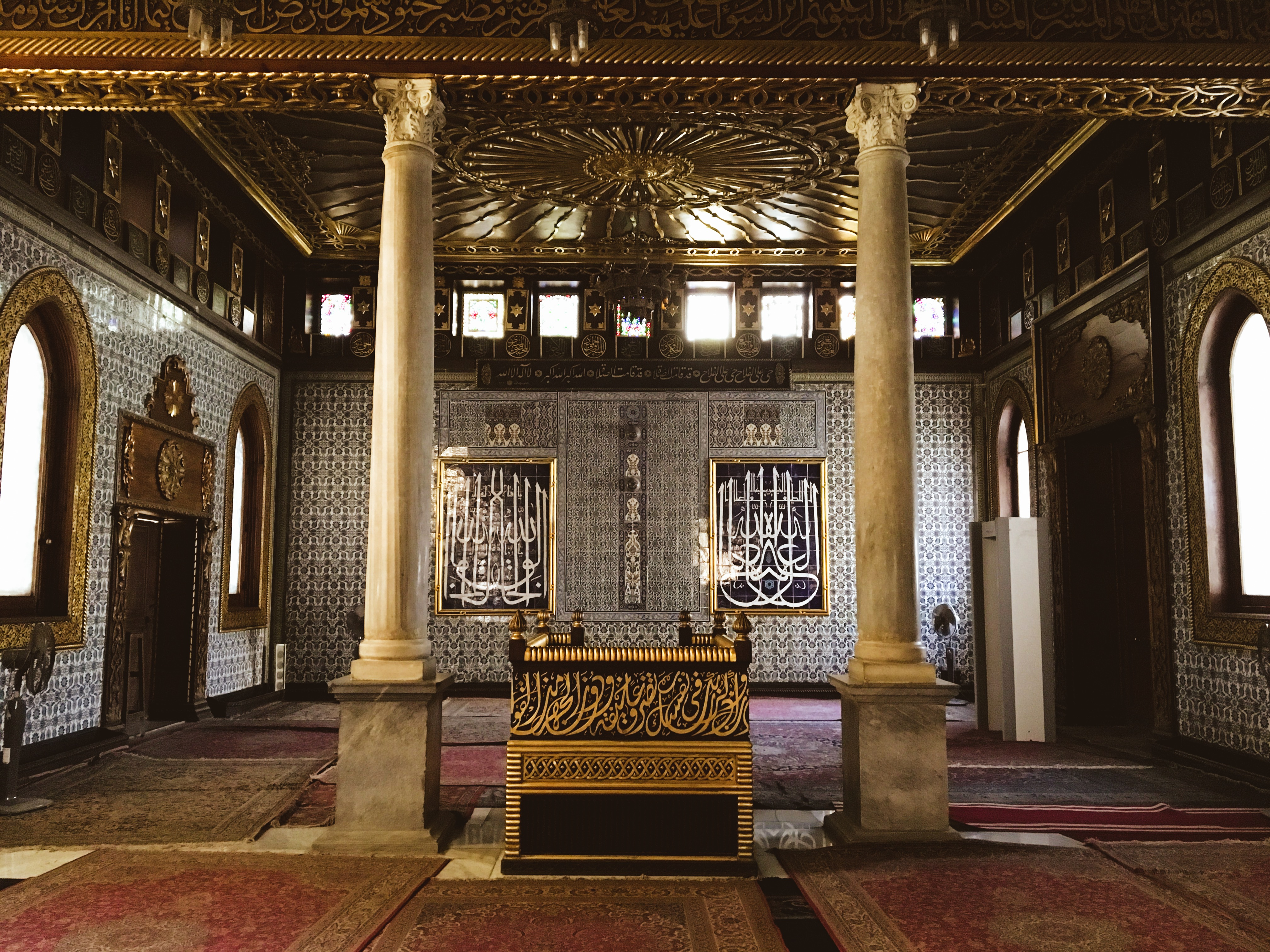 Mohammad Ali Tawfik Palace, Al-Manyal, Cairo. Egypt.